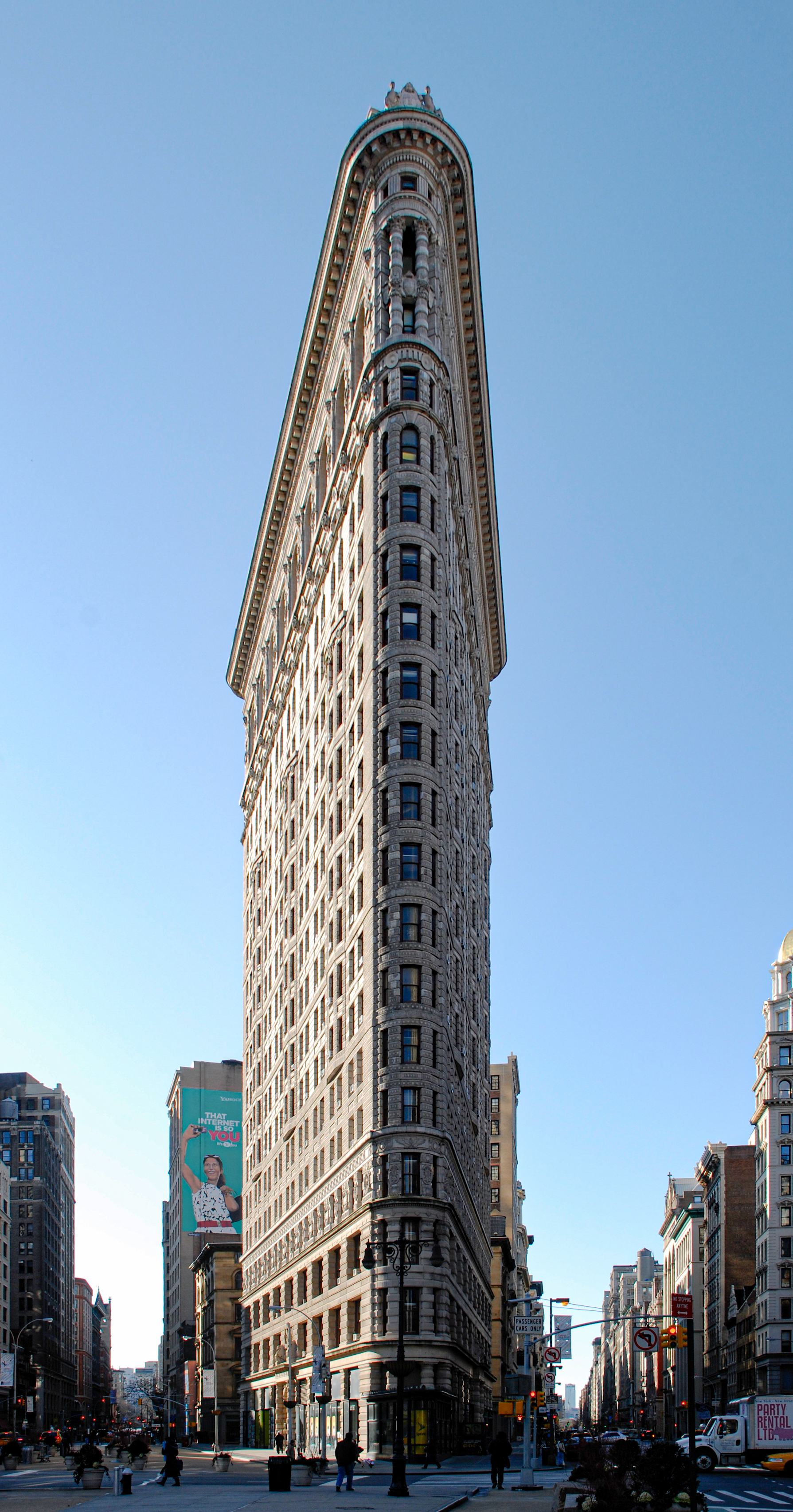 Fuller building (Flatiron), Manhattan, New York.